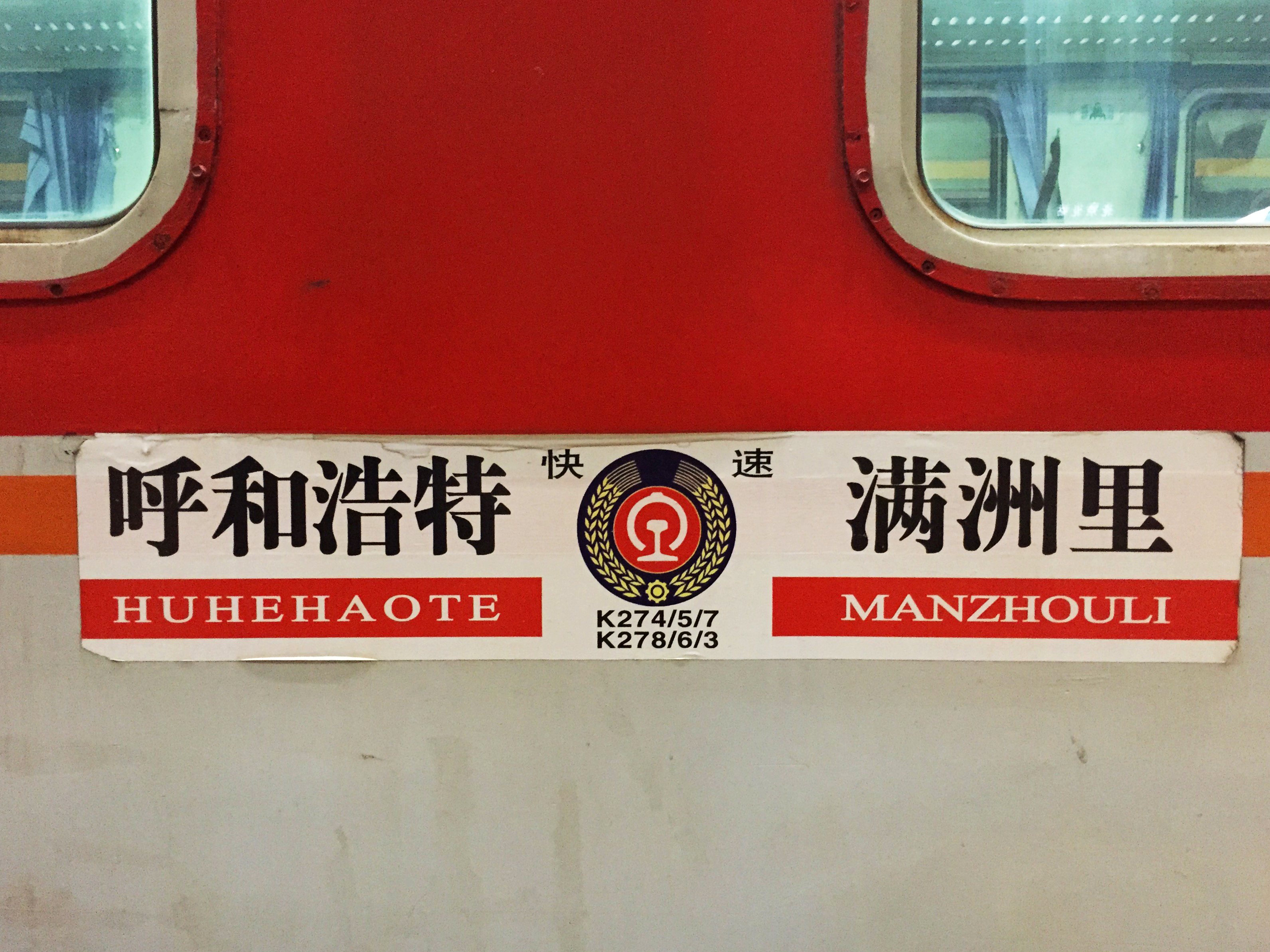 A trans-Inner Mongolian train via Xizhimen, nicknamed the "Prairie Train".